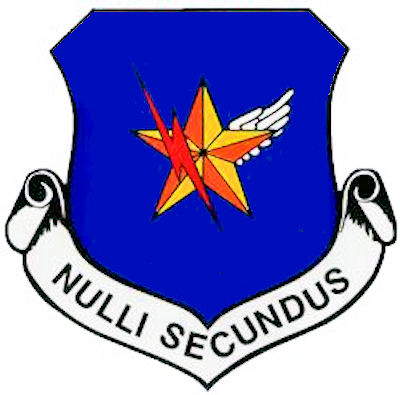 Emblem of the 368th Fighter Group